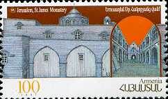 Stamp of Armenia